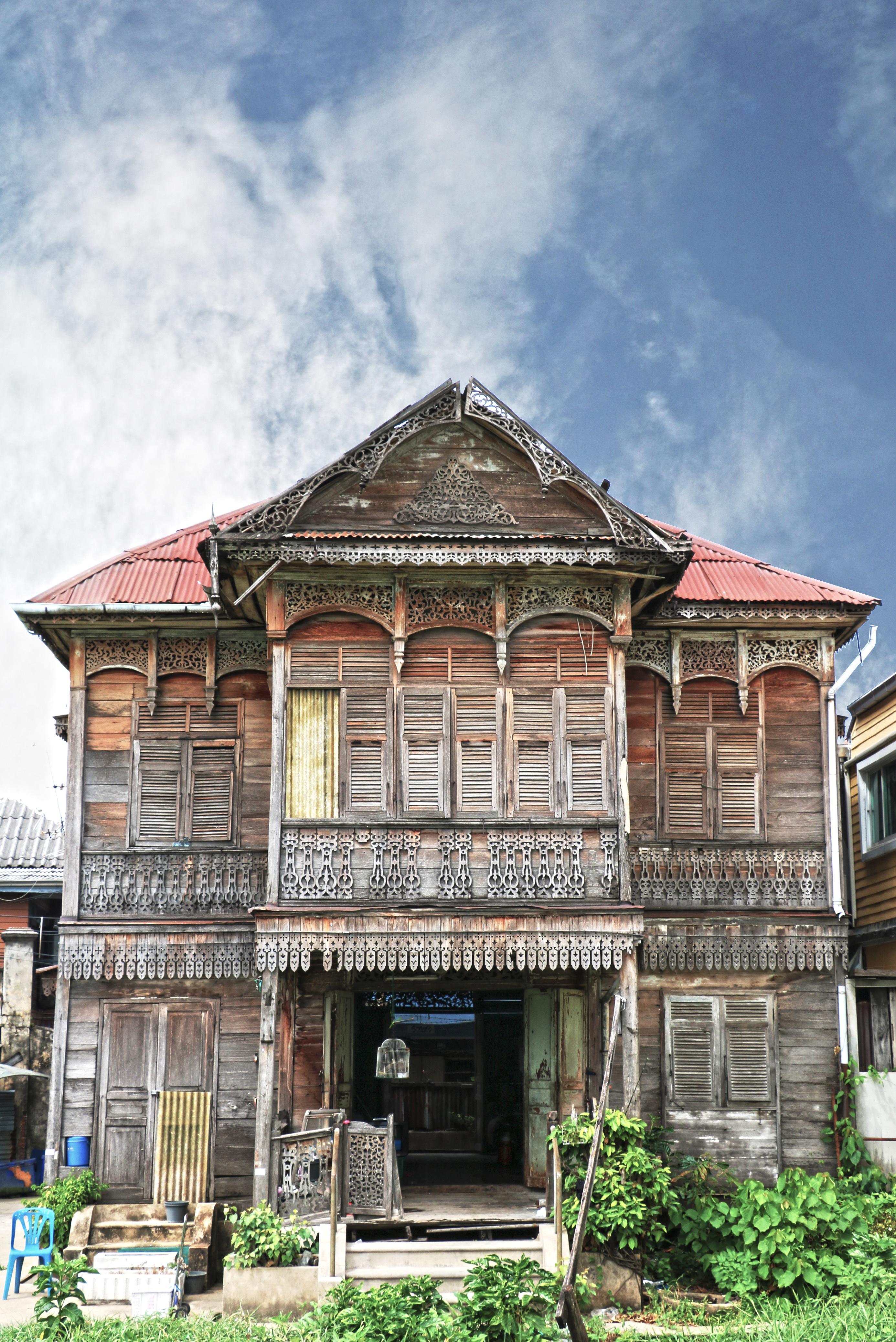 Windsor House, or Baan Windsor, which sits on a bank of the Chao Phraya River, is the legacy of Thon Buri's Kadeechin area. Louis Windsor built the house when he settled in Bangkok during the reign of King Mongkut. He married a Thai woman, Somboon, and lived in Siam until his final days.